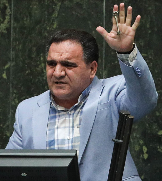 Hoseyn Maqsudi, member of the Iranian Parliament